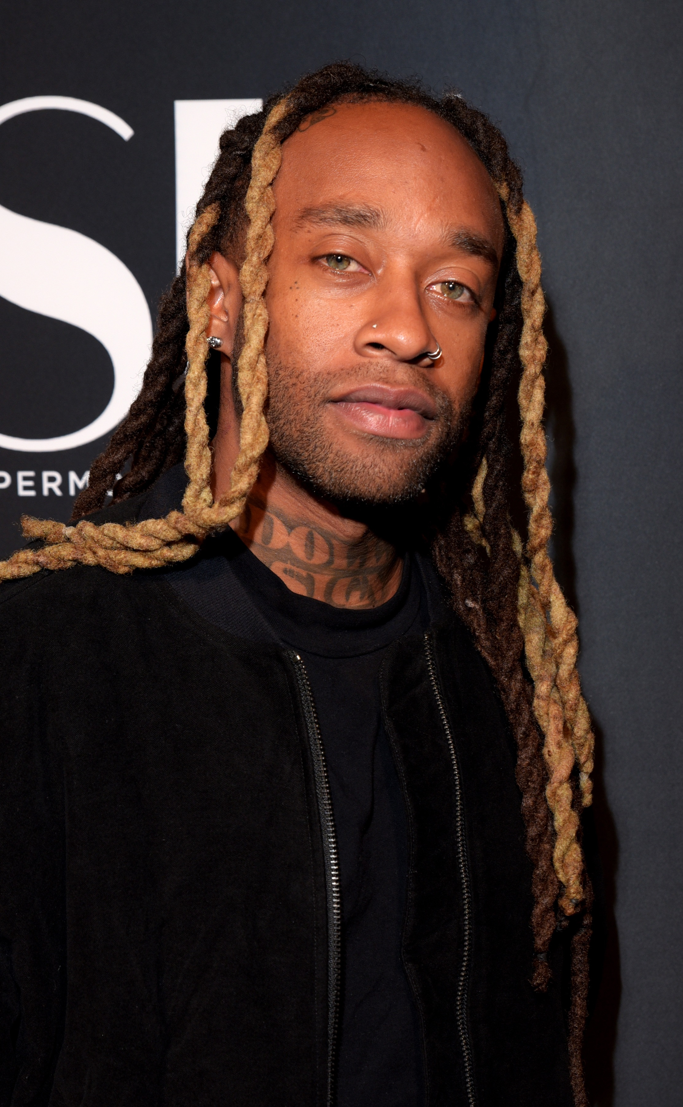 Ty Dolla Sign, Hollywood California on October 13, 2018 - Photo by Glenn Francis of